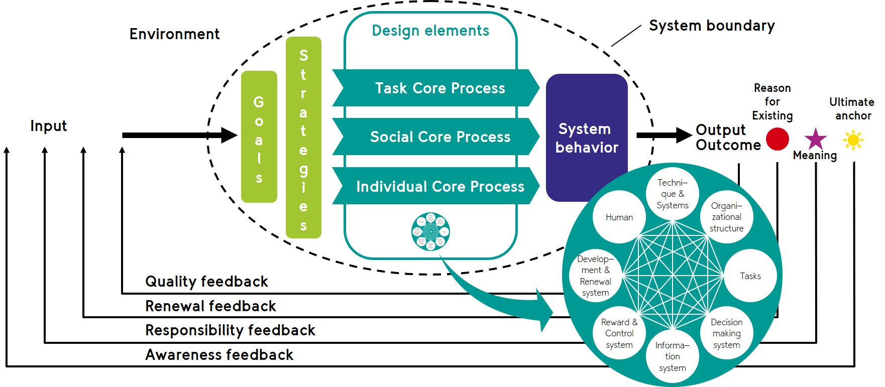 The OSTO System model in structural version with its components.